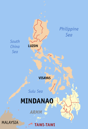 Map of the Philippines showing the location of Tawi-Tawi